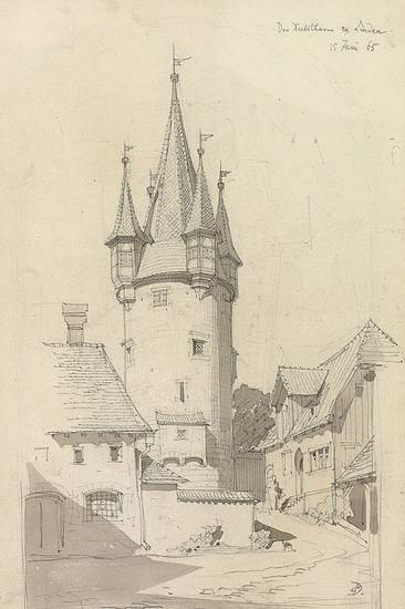 Der Diebsthurm in Lindau, 1865, pencil on paper, 27 x 18 cm